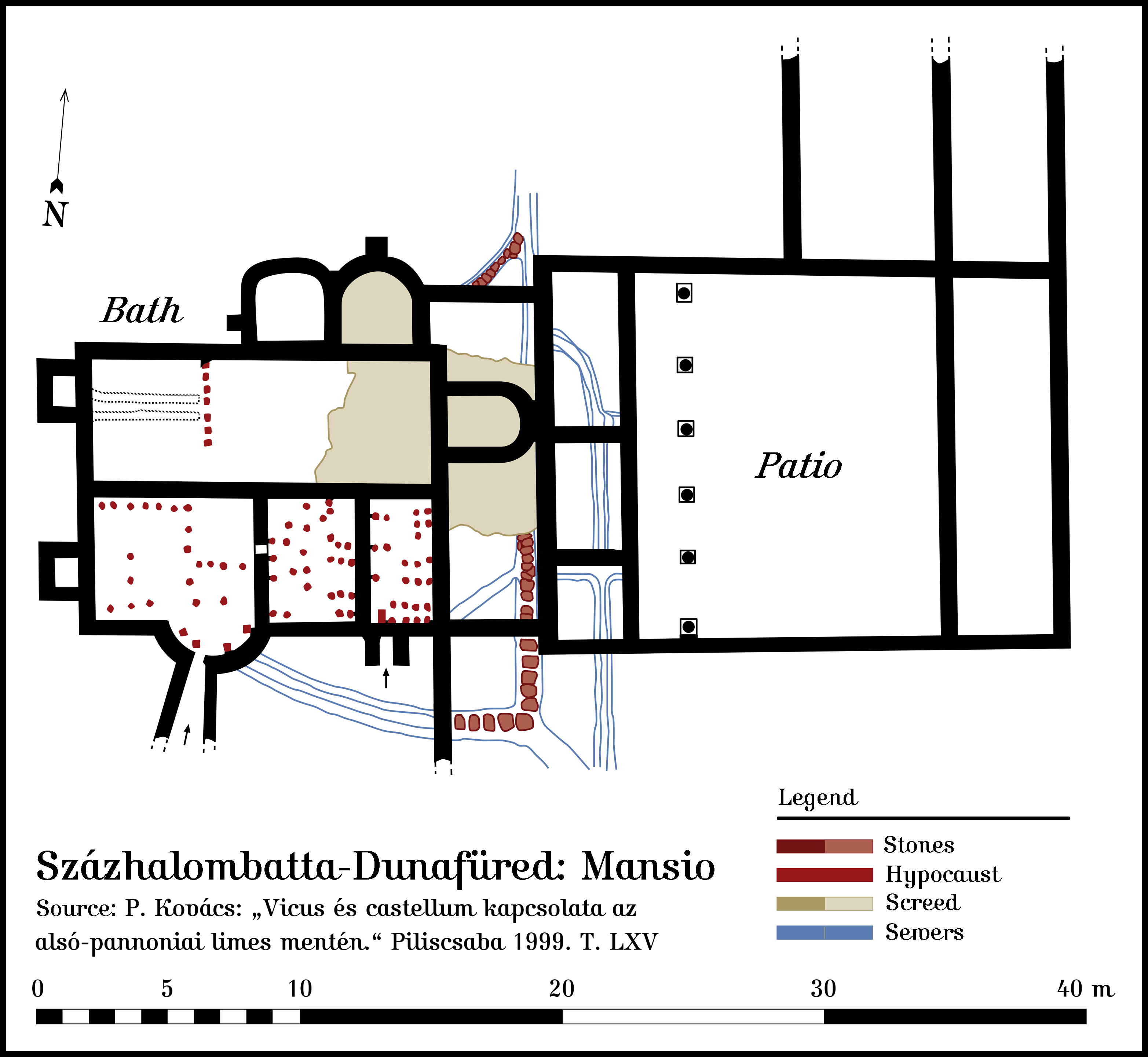 Vicus of the fort Százhalombatta-Dunafüred (Matrica, Hungary): Mansio. The source for this plan is to specify in the drawing.